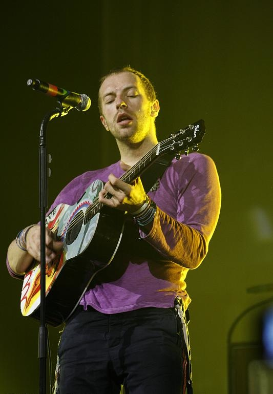 Chris Martin playing the guitar during Coldplay's 2008 Viva la Vida tour